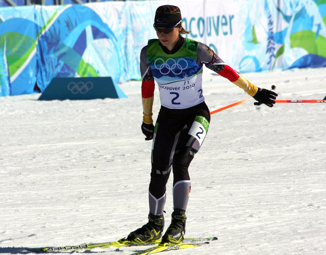 Magdalena Neuner before the Olympic Mass Start race, Vancouver, Canada Cropped from File:Neuner-Vancouver3.jpg